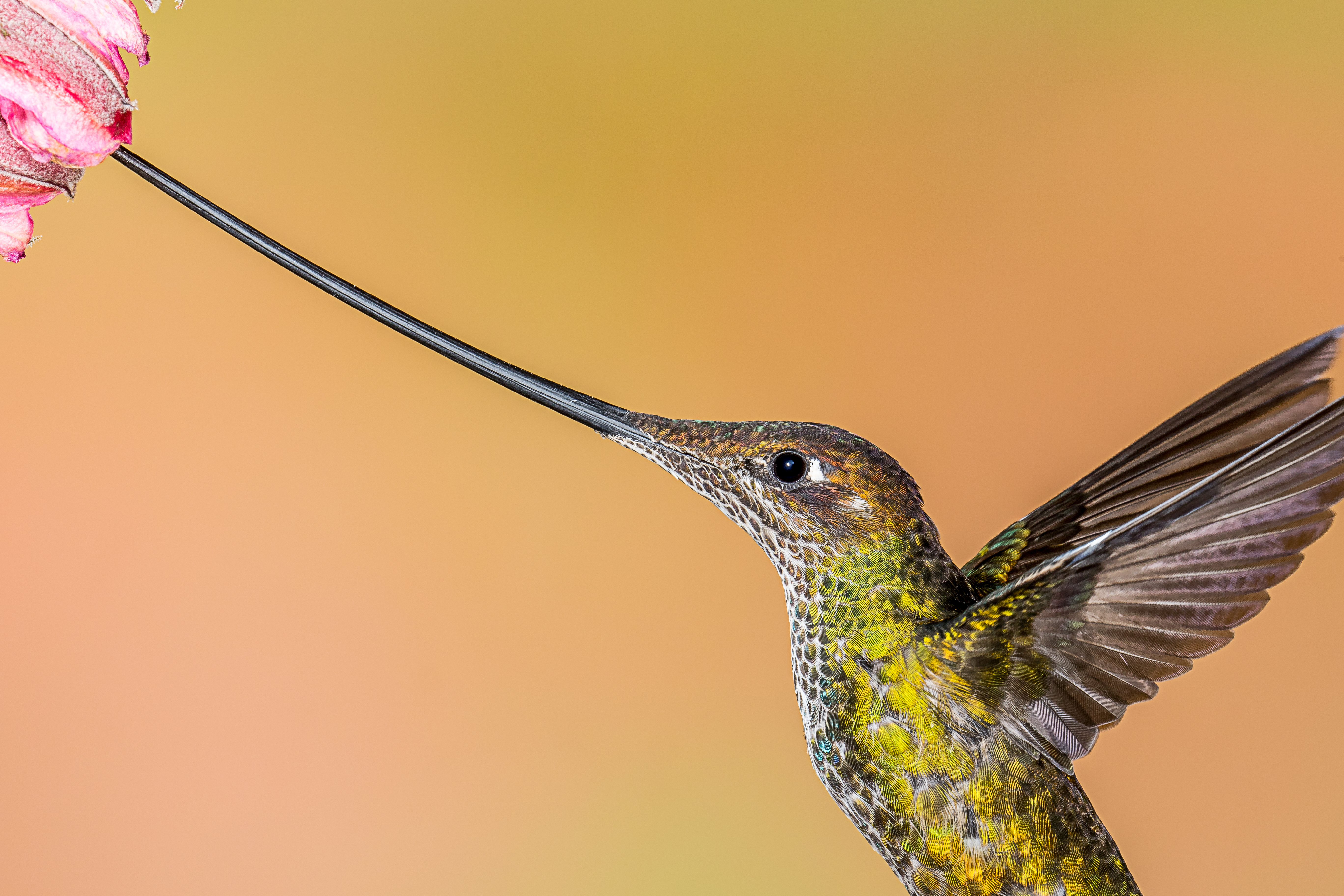 A close-up of a female sword-billed hummingbird. Photographed at Guango Lodge, Ecuador!